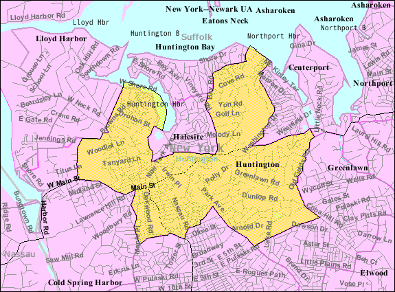 Huntington map from U.S. Census